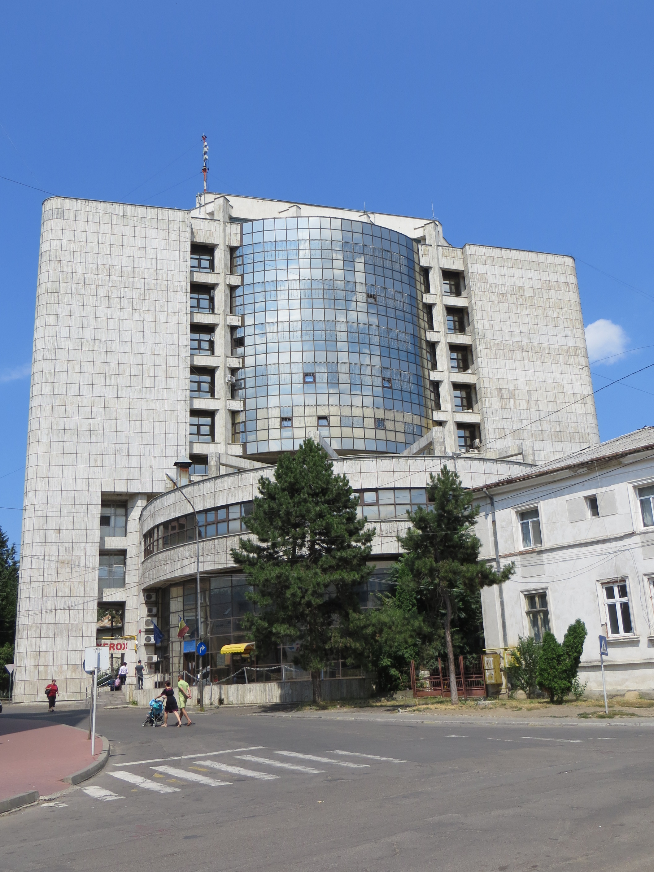 The Palace of Finance in Suceava.